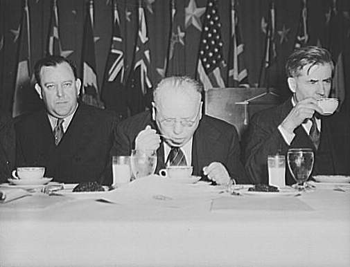 Norwegian foreign minister, Trygve Lie; Russian ambassador Maxim Litvinov; and Vice-President Henry A. Wallace at luncheon of dehydrated food commemorating second anniversary of lend-lease, held March 11, 1943, at Hotel Statler, Washington, D.C.